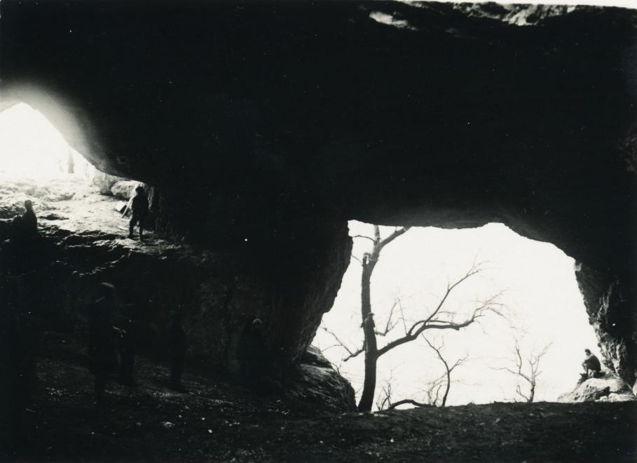 Szelim Cave in 1918